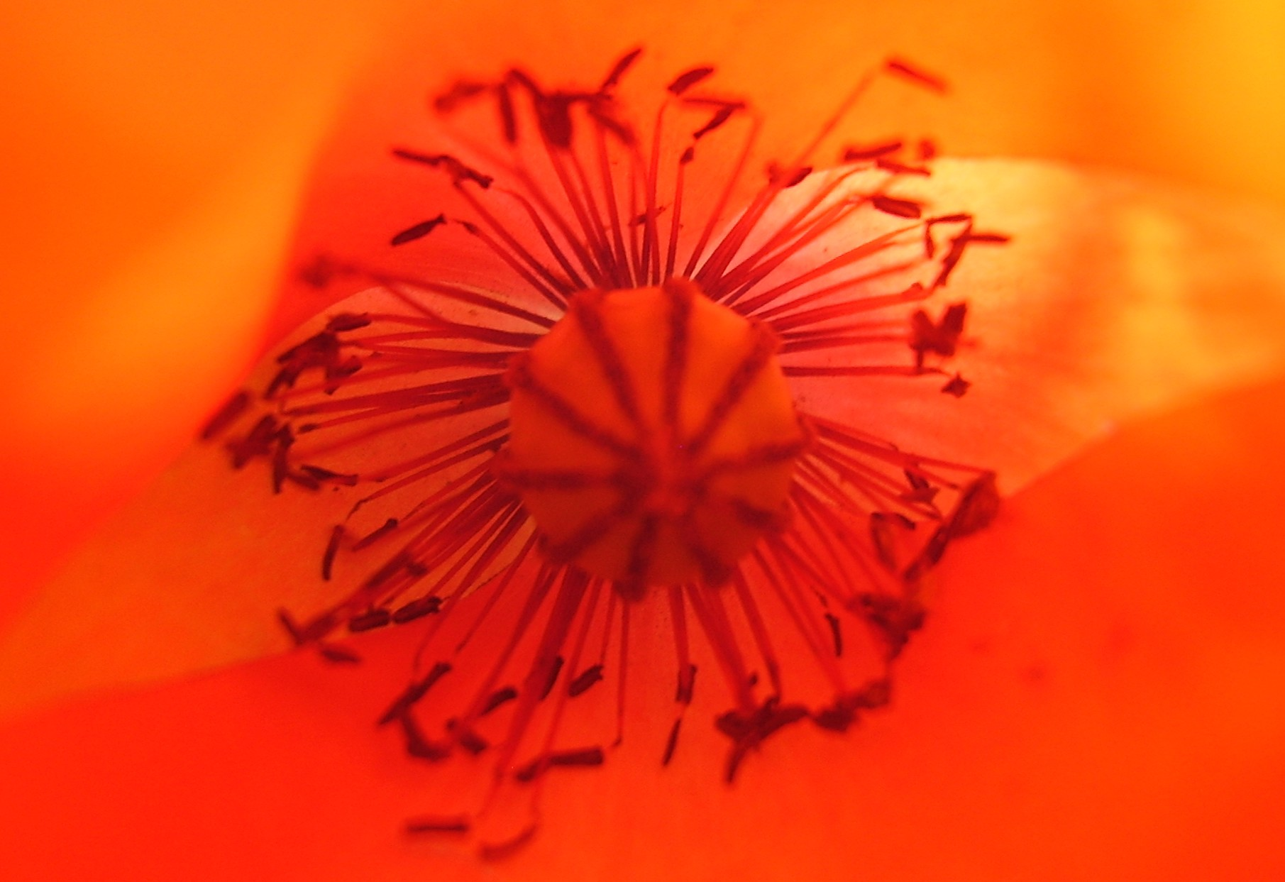 Corn poppy (Papaver rhoeas) flower at Sa Casa Blanca, Mallorca; see UIB herbarium